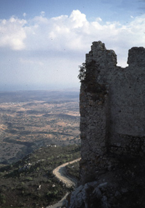 Kantara Castle in North Cyprus.